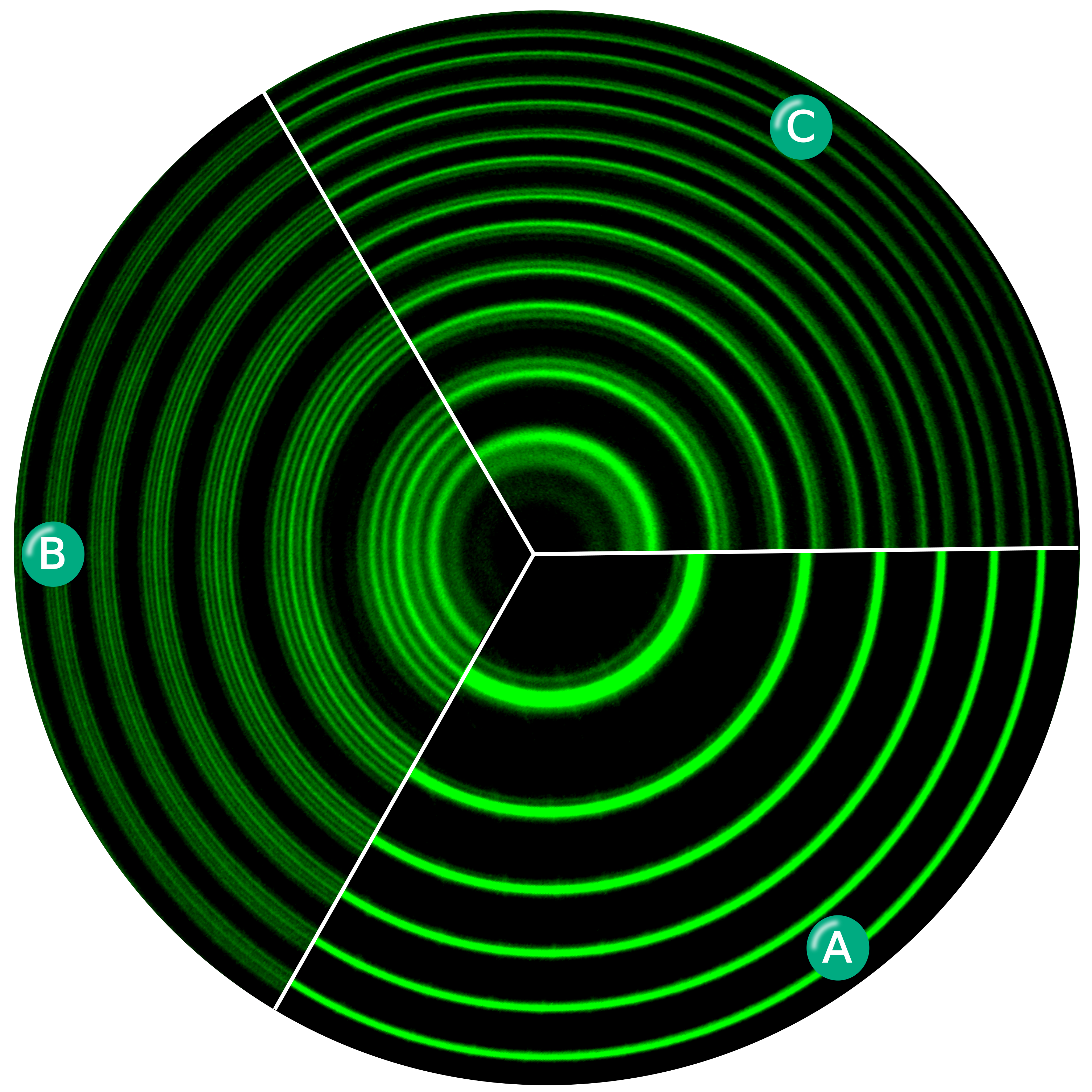 The spectral lines of mercury vapor lamp at wavelength 546.1nm,showing anomalous Zeeman effect. A.Without magnetic field. B.With magnetic field,spectral lines split as transverse Zeeman effect. C.With magnetic field,split as longitudinal Zeeman effect. The spectral lines were obtained using Fabry-Perot etalon.The original three photos were taken at the laboratory of Anhui Normal University for modern physics experiments,and is later made into one illustration.